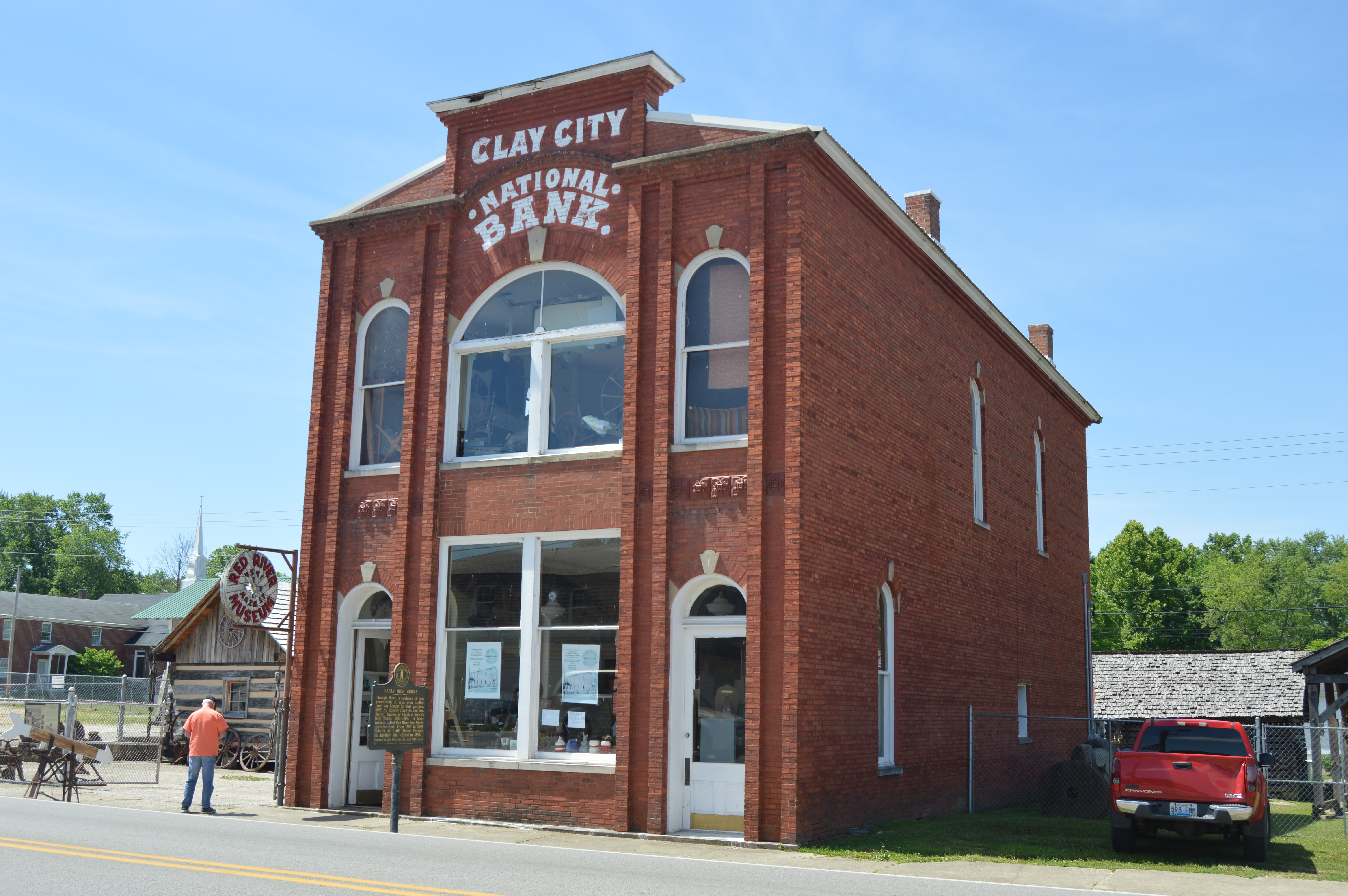 Front and northwestern side of the Clay City National Bank Building, located on the southwestern side of Main Street (Kentucky Routes 11/15) in central Clay City, Kentucky, United States. Built in 1890 and now a museum, it is listed on the National Register of Historic Places.